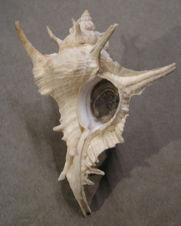 Photograph of the seashell Siratus tenuivaricosus (Dautzenberg, 1927)[1] - underside view, with operculum / Origin of image: Own collection. Central coast of Brazil.